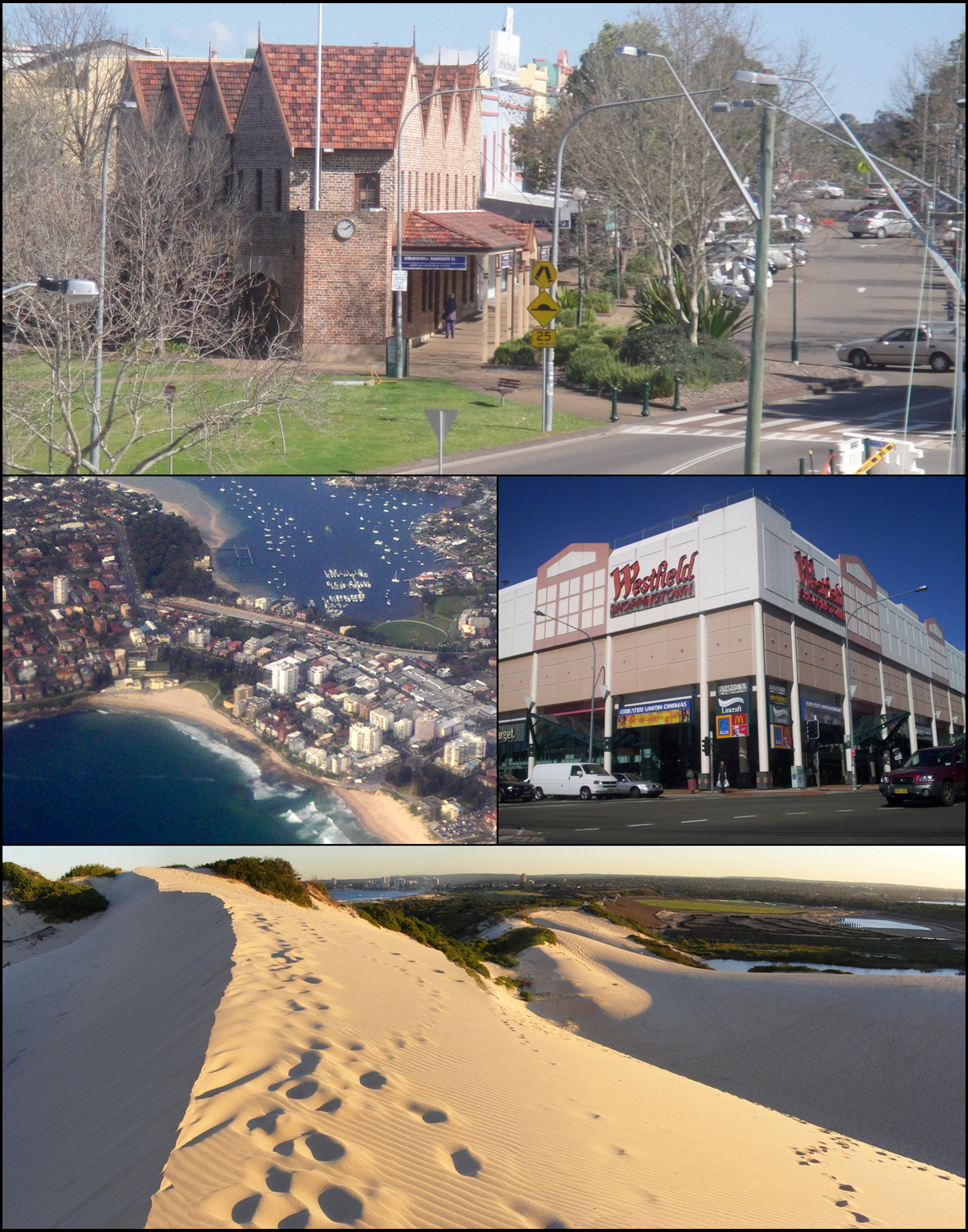 Montage of four images: File:Sutherland oph.jpg (Own work) (Public Domain) by Darcyj (Public Domain) by Cfitzart (GNU & Creative Commons) by Adam.J.W.C (Creative Commons)